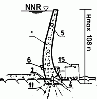 Cross section of Paltinu dam